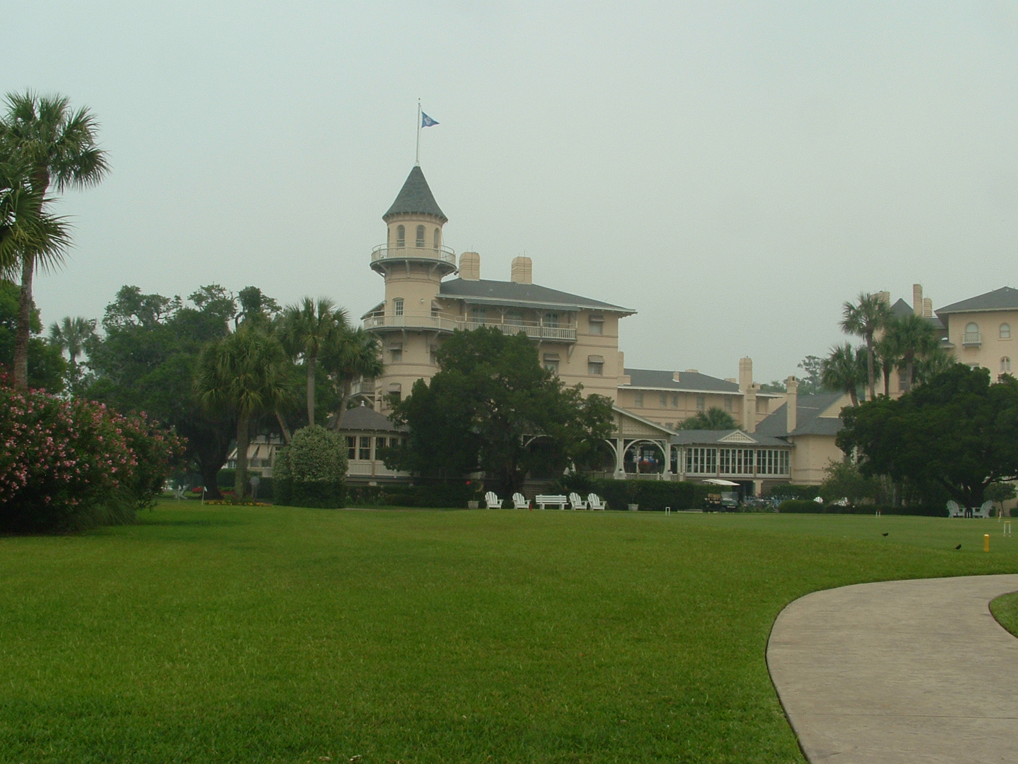 This is a picture I took on May 17, 2007, while thin smoke was blowing in from south Georgia forest fires.